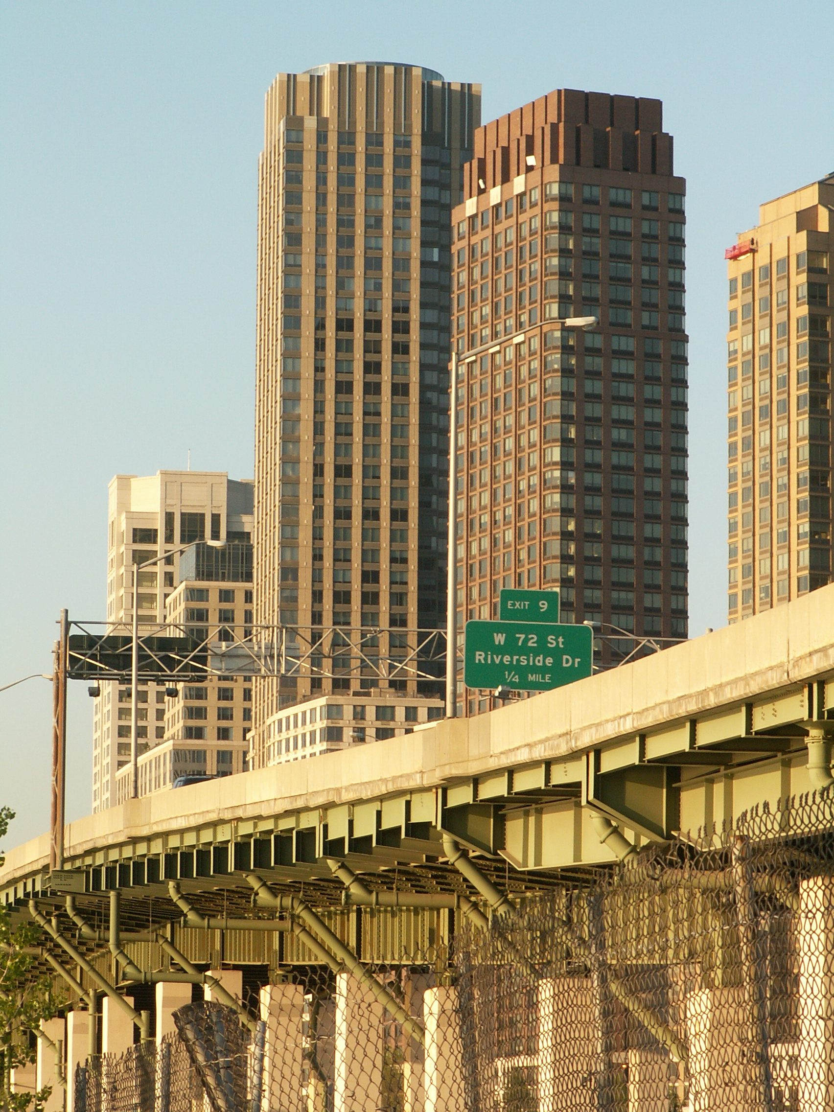 West Side Highway and Riverside South Project By Donald Trump